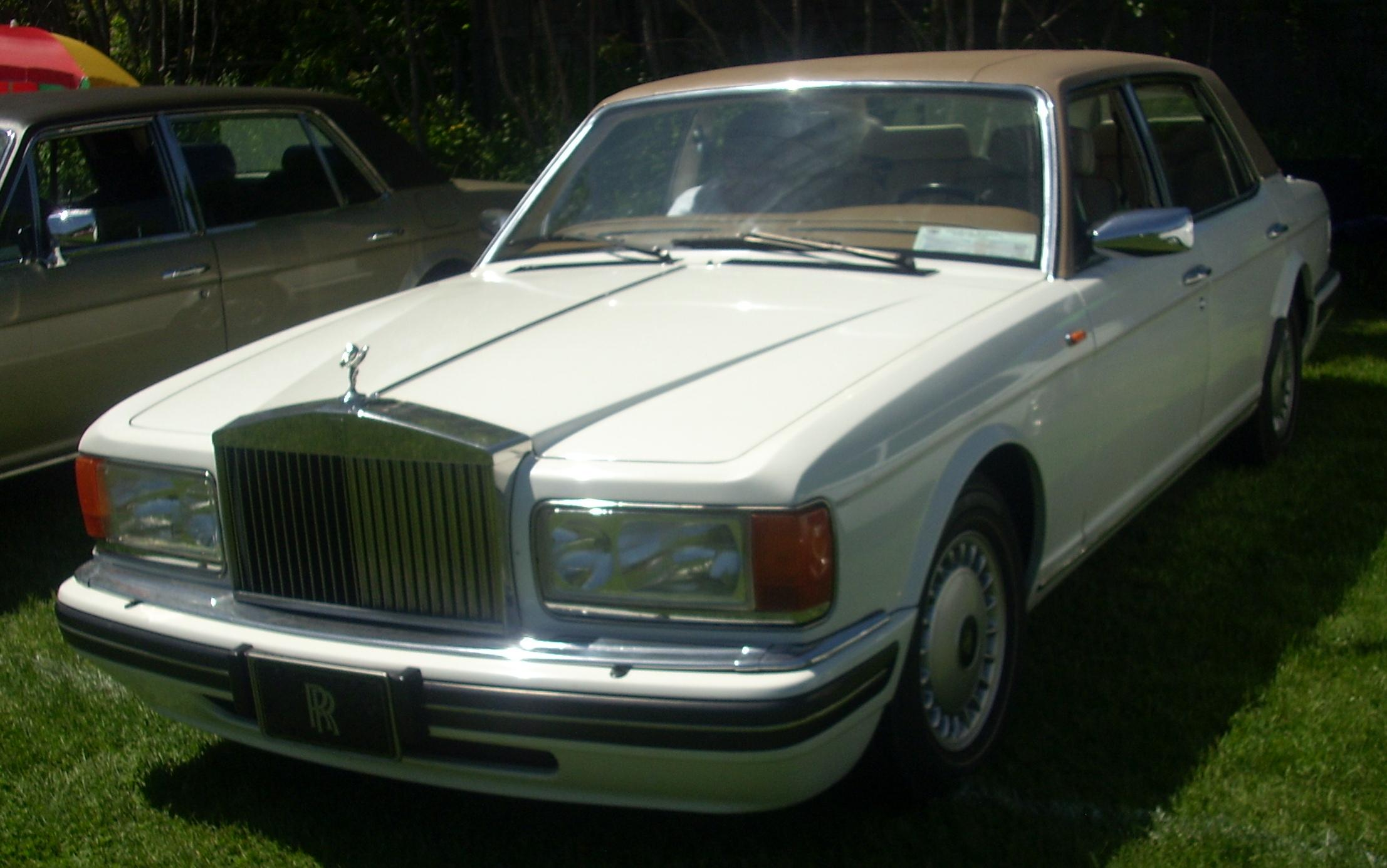 1996 Rolls-Royce Silver Dawn photographed at the 2008 Hudson British Car Show.